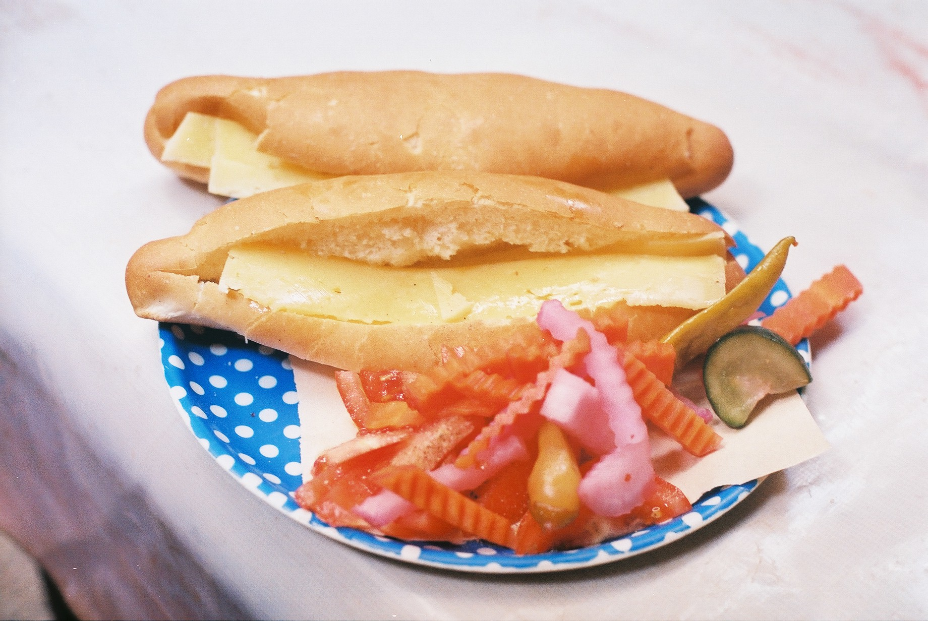 Cheese Sandwich and Pickles in a downtown Cairo restaurant